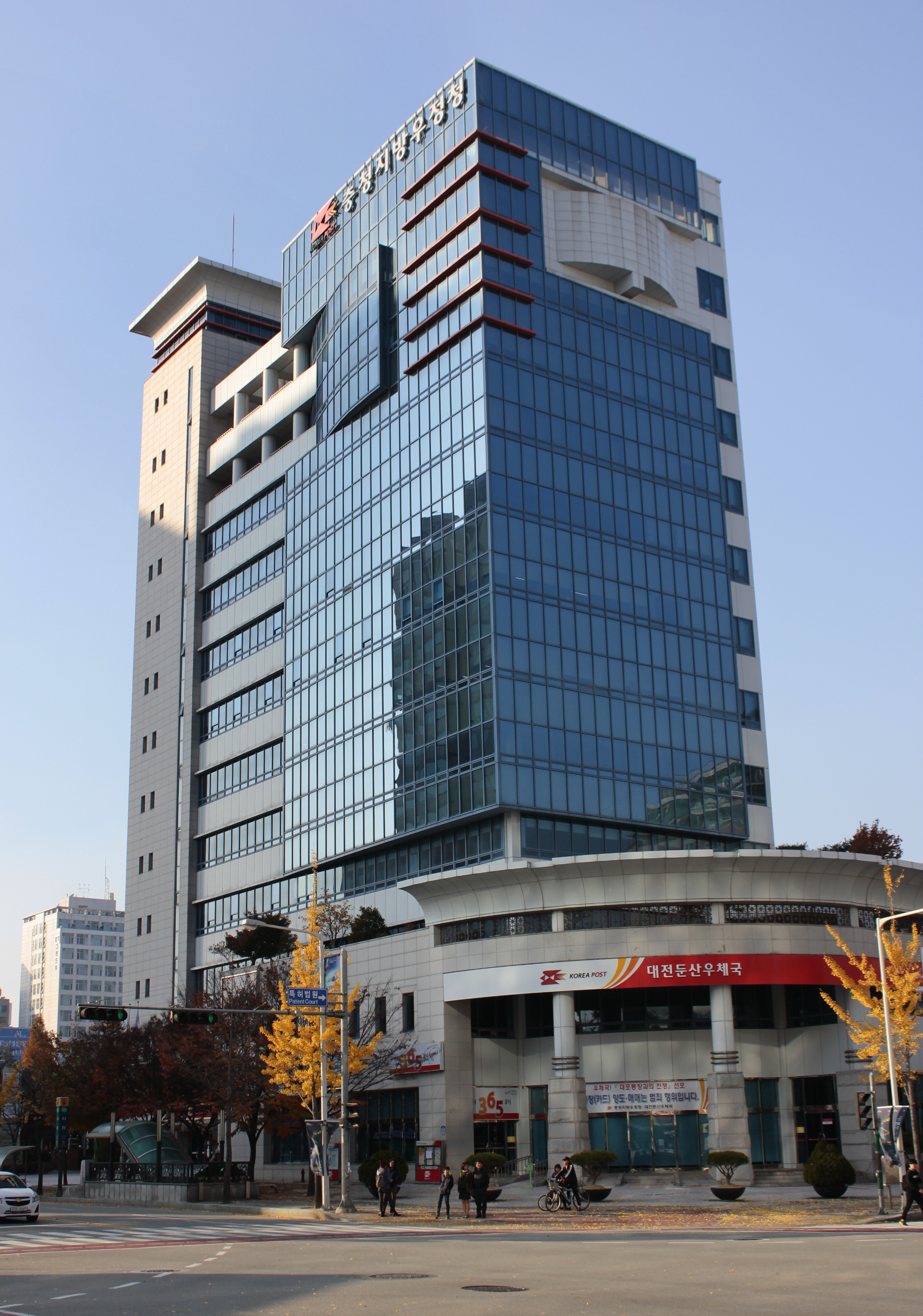 w/Daejeon Dunsan post office